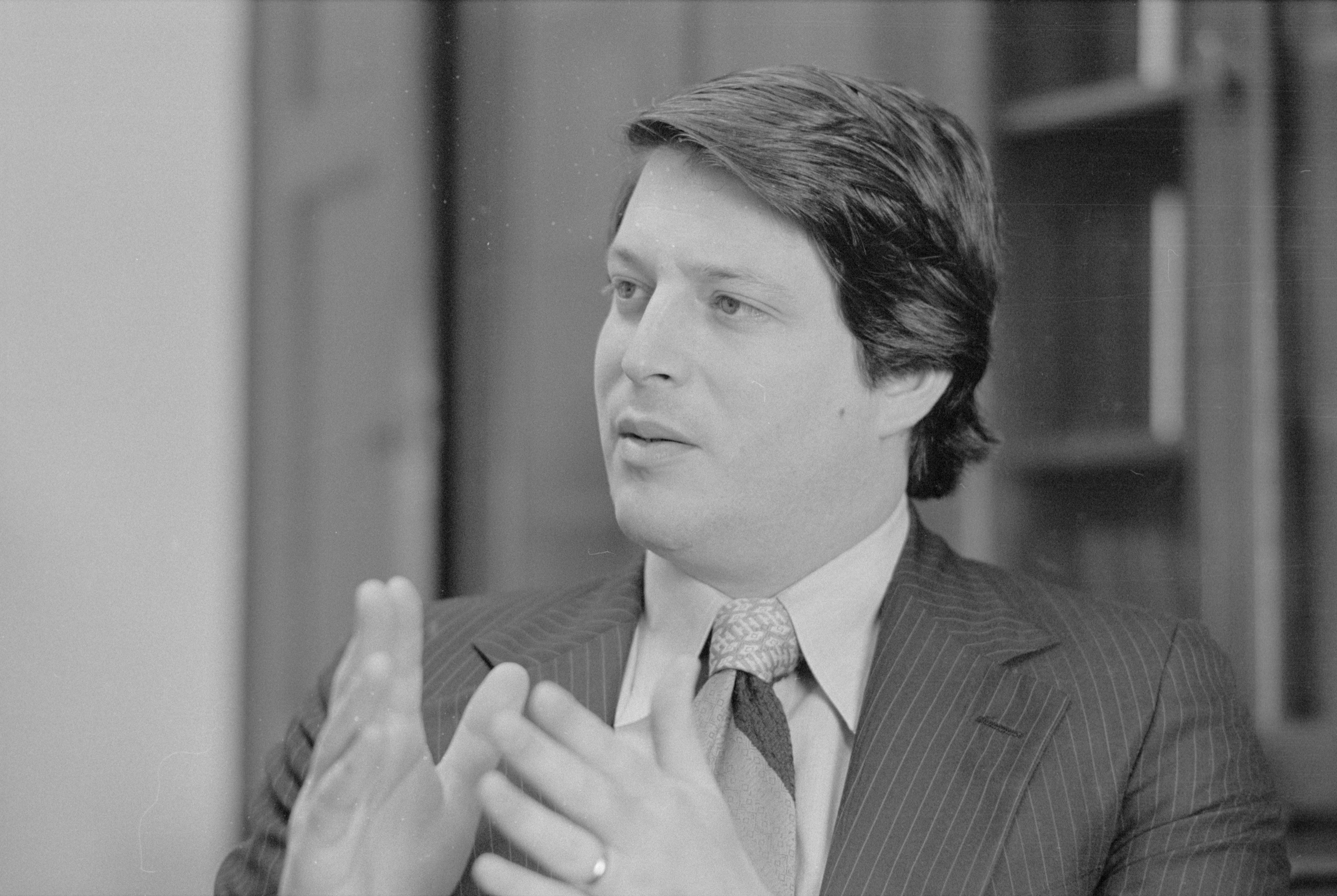 Interview with Congressman Albert Gore, Jr., of Tennessee